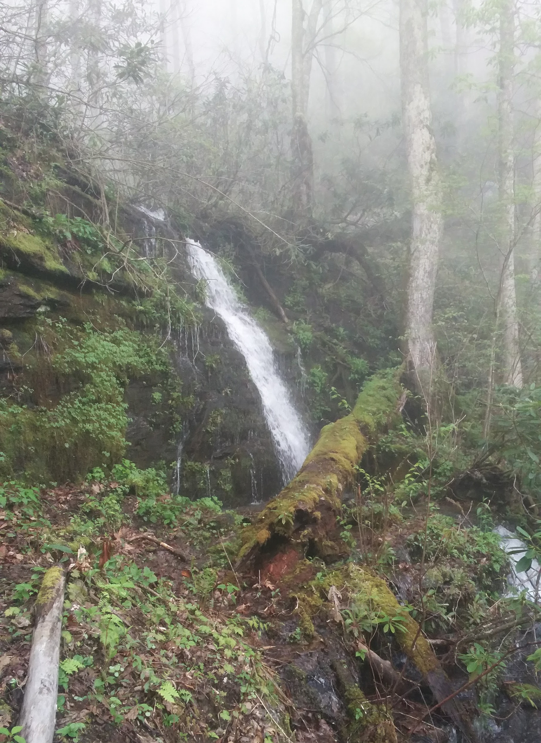 A waterfall near Fairview, North Carolina on Little Pisgah Mountain.